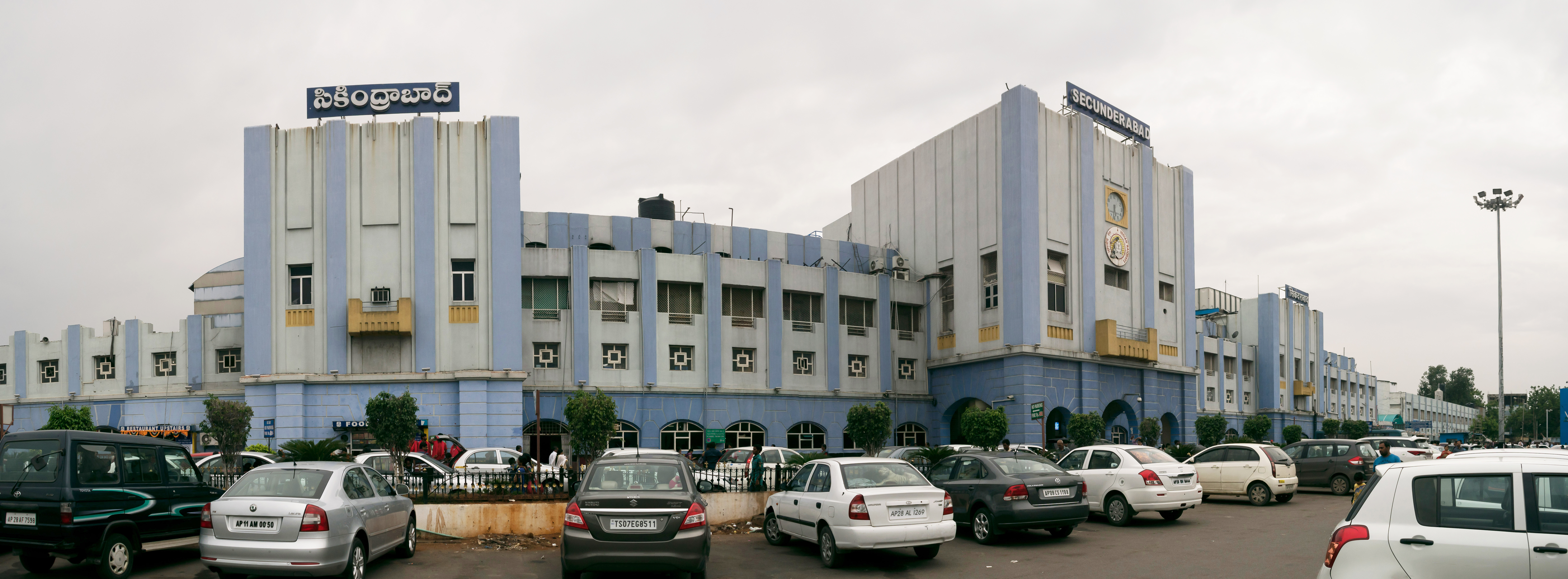 A panoramic view of Secunderabad Rail station